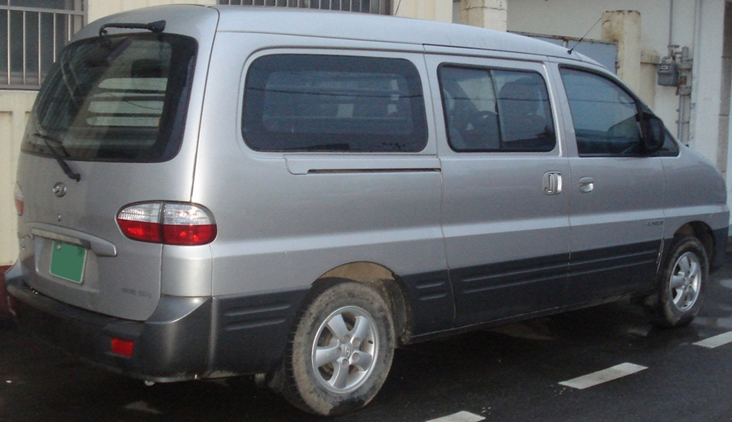 Hyundai Starex